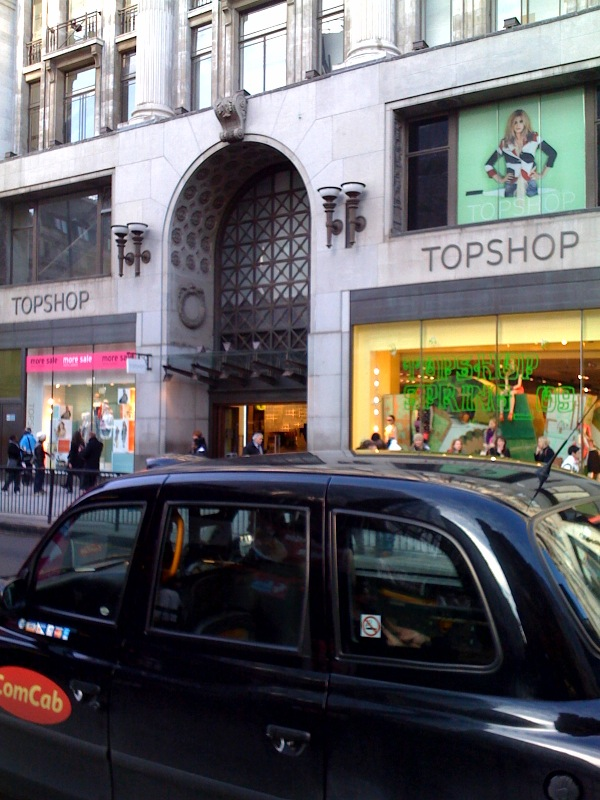 The outside of oxford street london store of Topshop, the major fashion retailer.